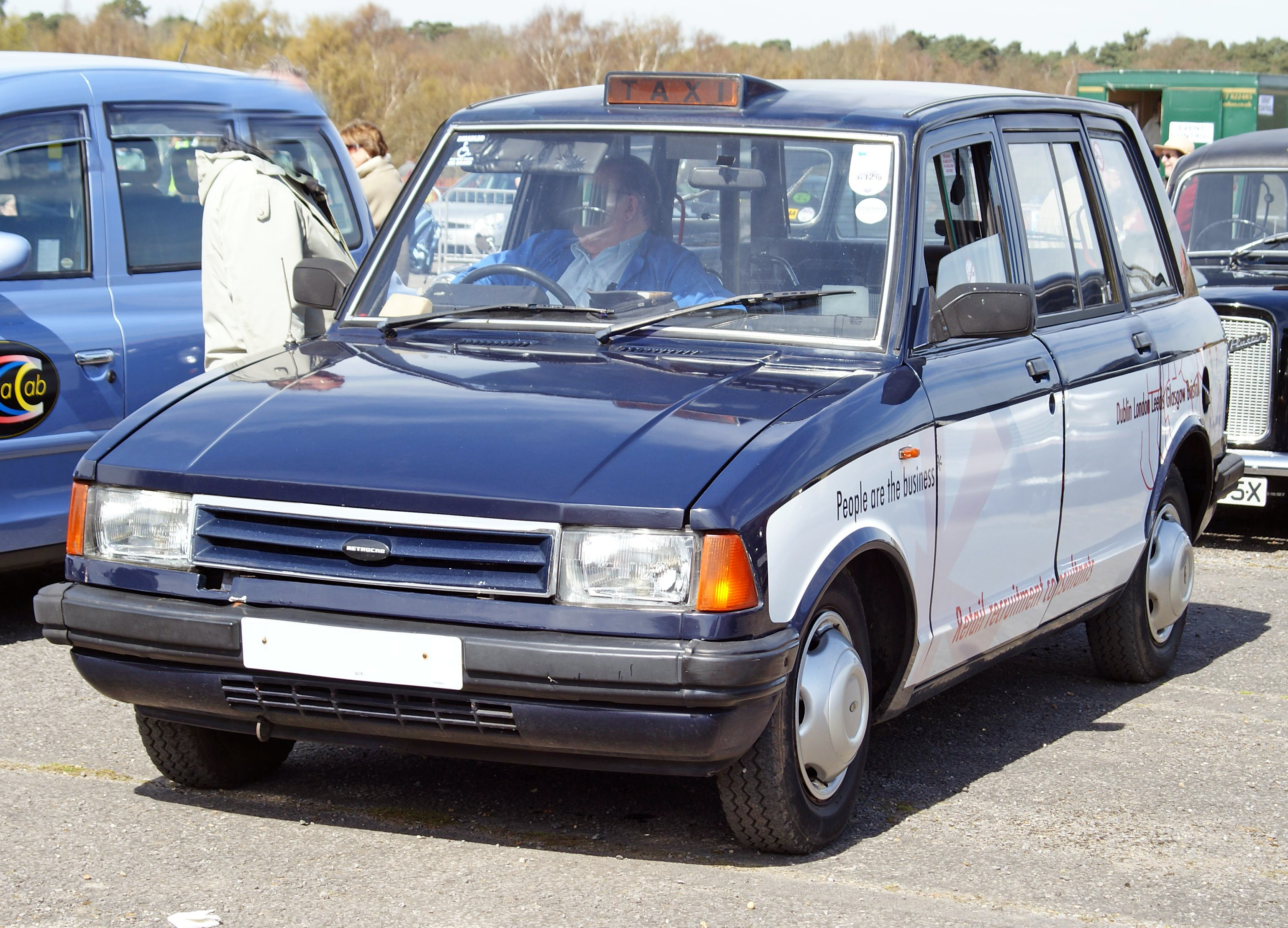 1992 or 1993 Hooper-built Metrocab London Taxi, with the original Ford Granada headlights and grille